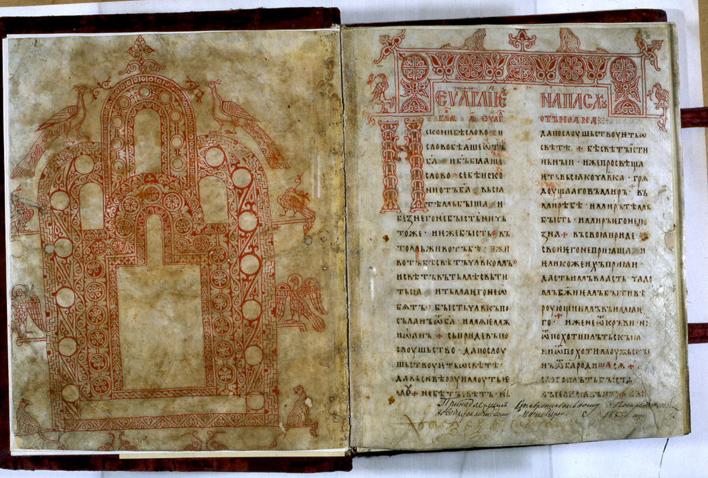 Yurevskoe Gospel